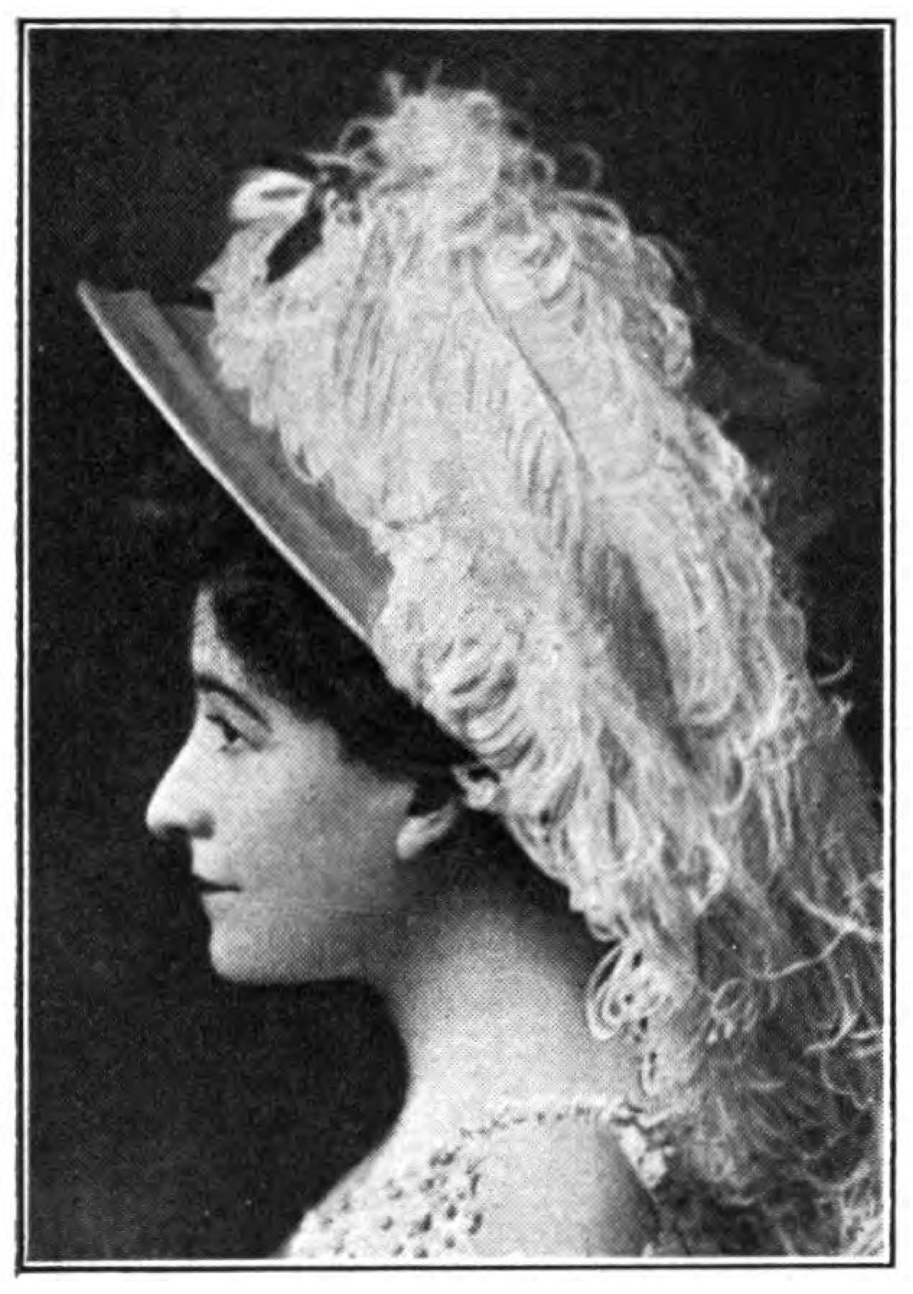 Sallie Fisher (1880–1950) was an American actress